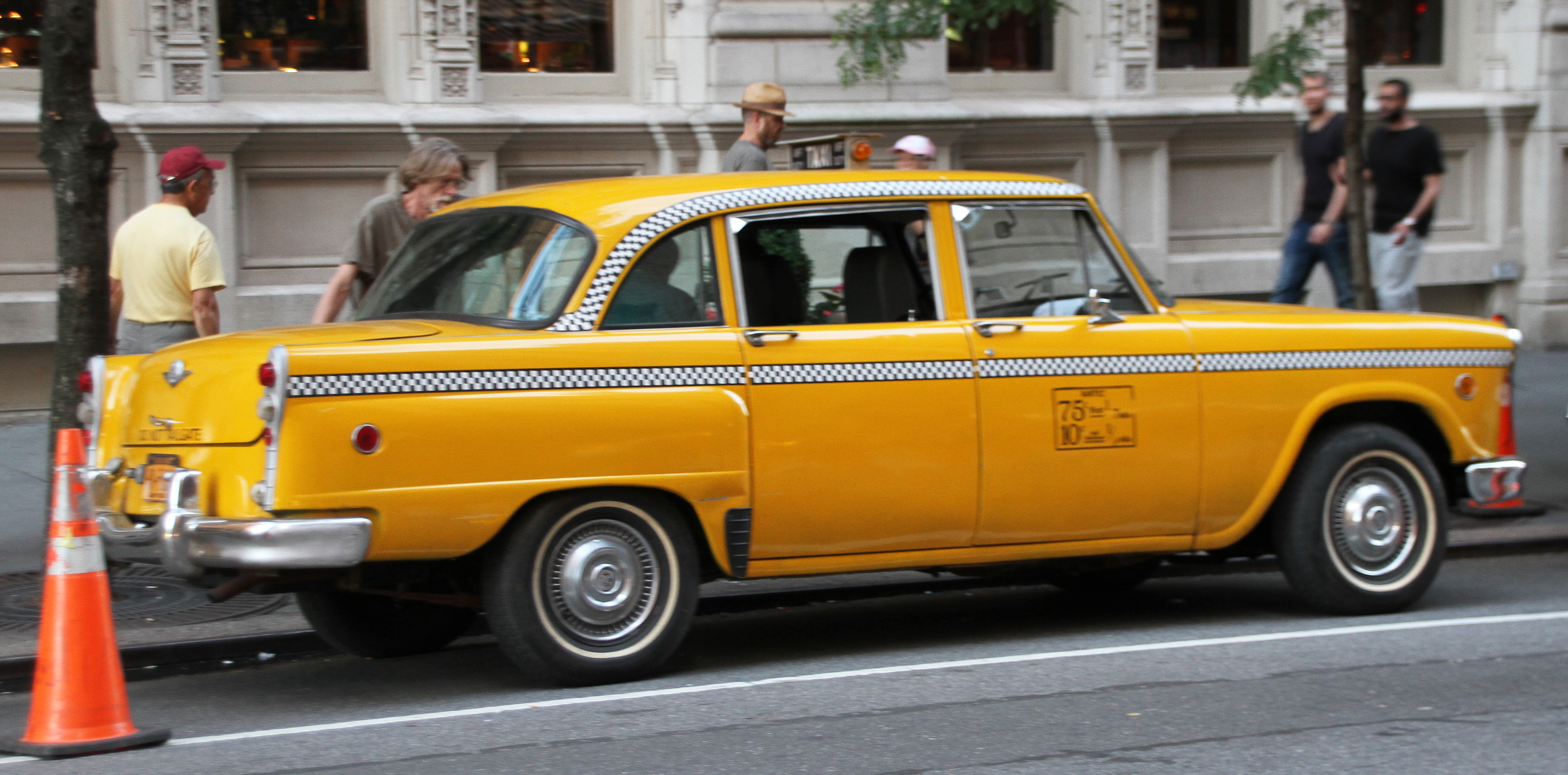 Old Yellow Cab